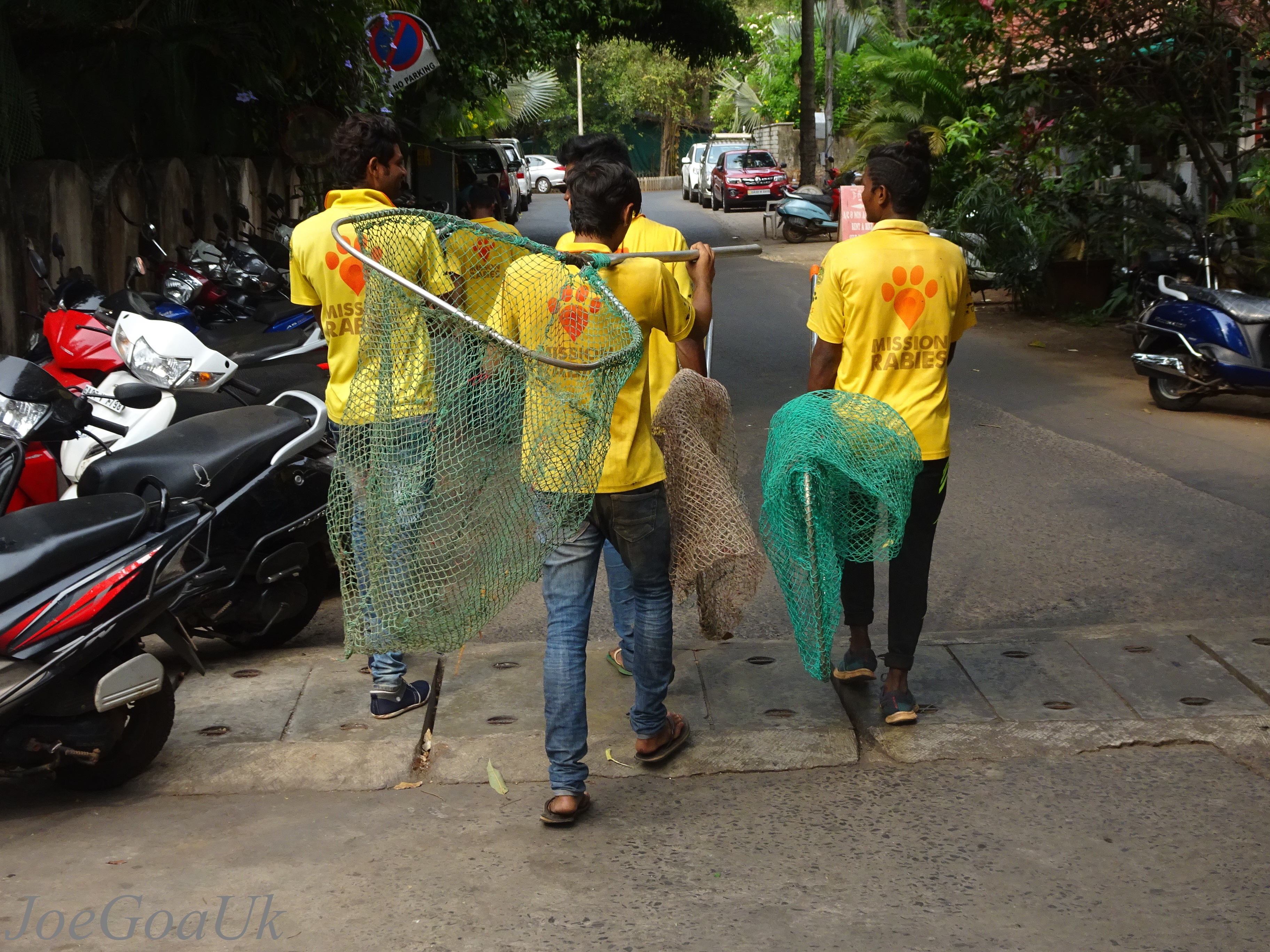 Flickr description Men come to catch stray dogs with nets Miramar near Marriott